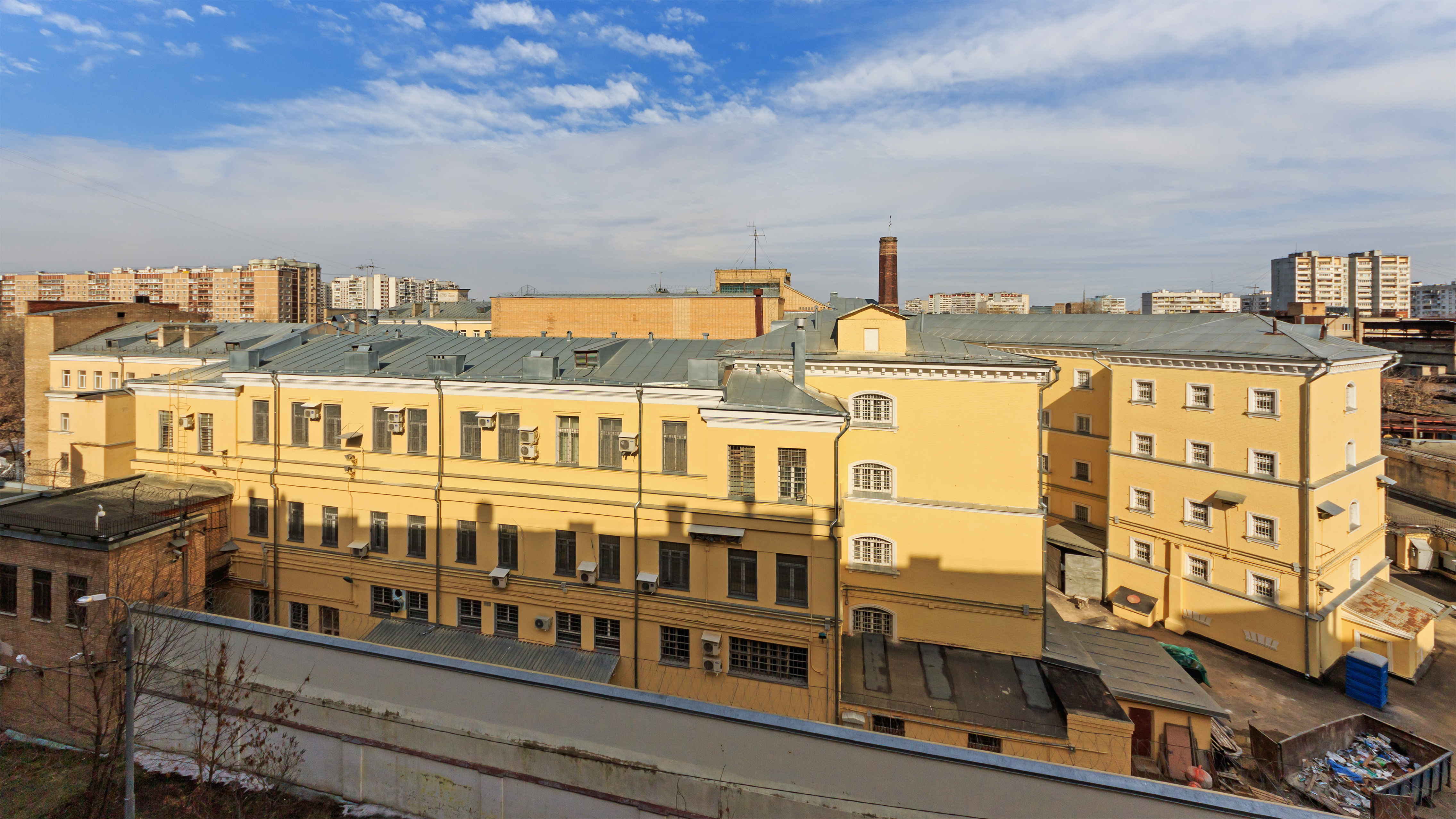 Exterior view of Lefortovo Prison in Moscow